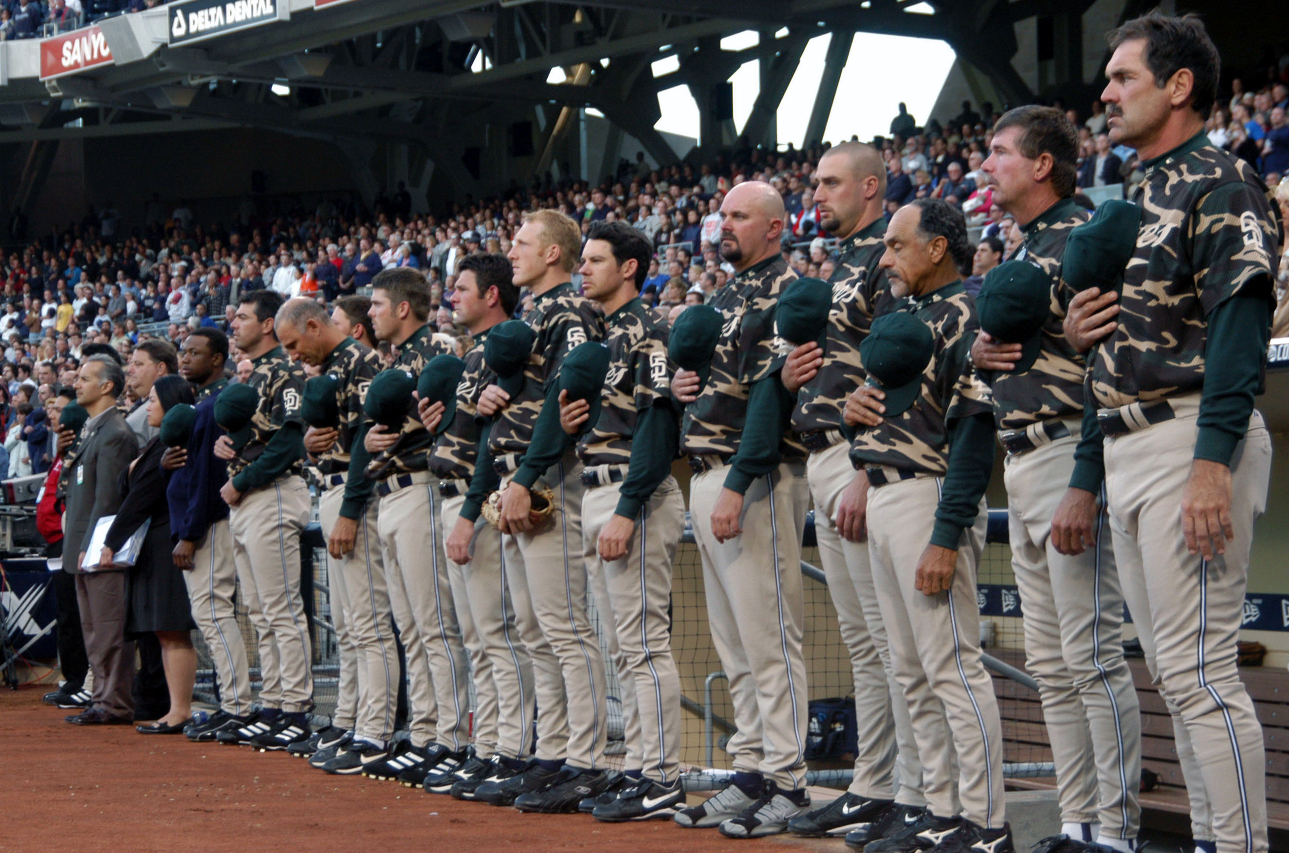 San Diego, Calif. (Apr. 15, 2004) - The San Diego Padres show their military support by donning camouflaged versions of their uniforms for a game against the Los Angeles Dodgers on Military Appreciation Day at Petco Park in San Diego, Calif. U.S. Navy photo by Photographer's Mate Airman Melissa Vanderwyst. (RELEASED)